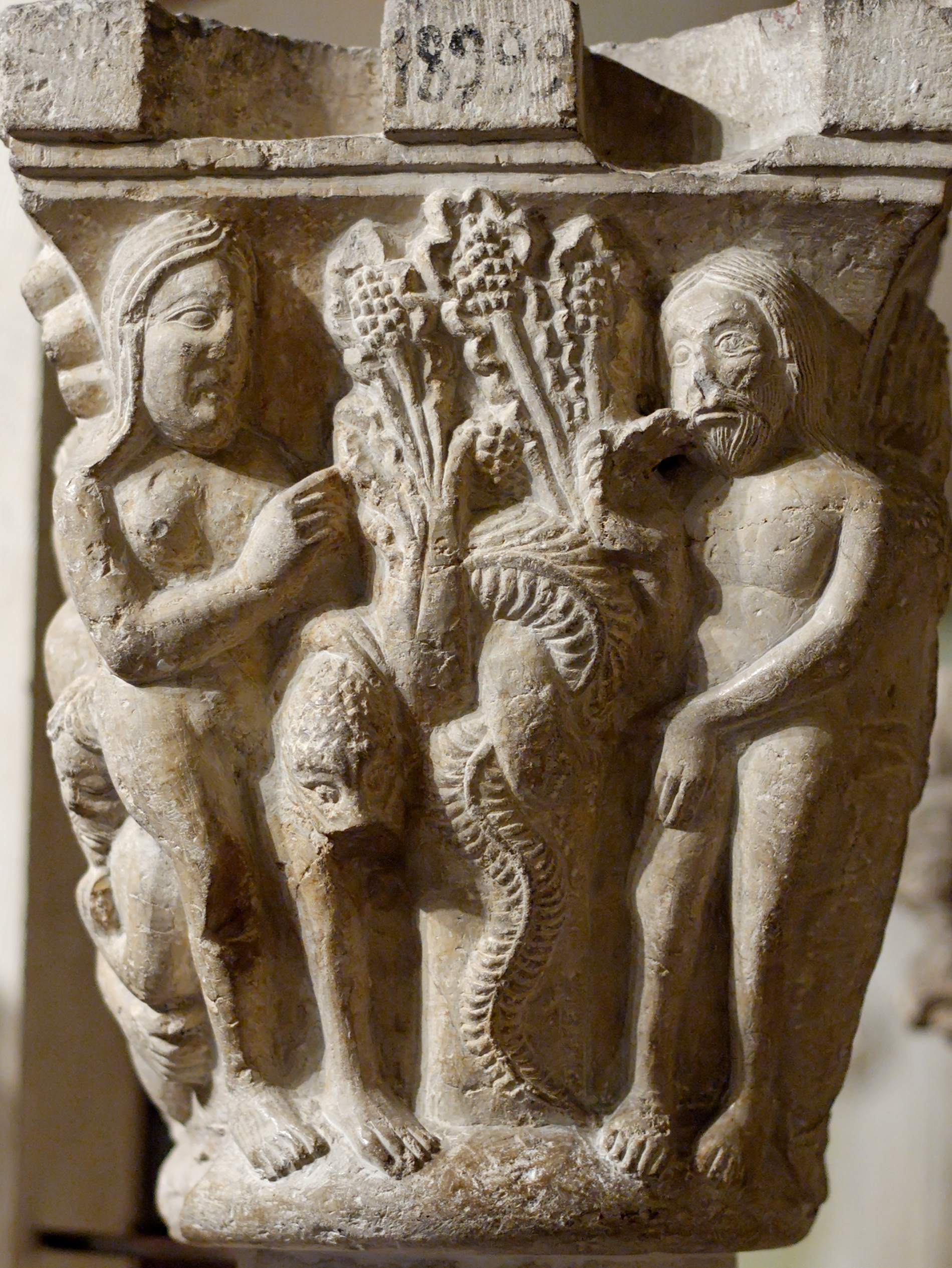 Capital representing scenes from Genesis: temptation of Adam and Eve. Stone, northern Catalunya, late 12th century. From a Catalan cloister.